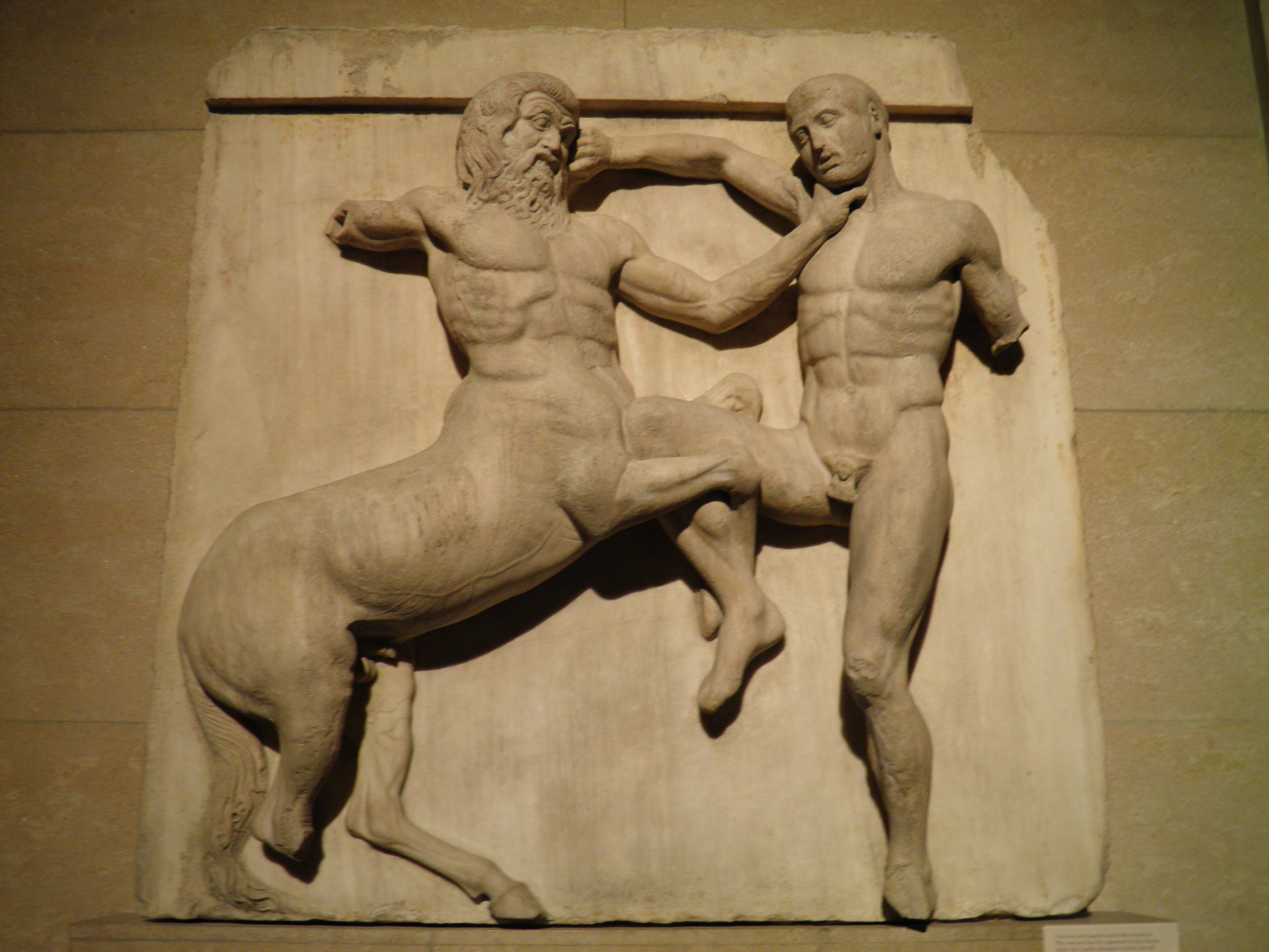 British Museum. Parthenon Marbles. South metope XXXI